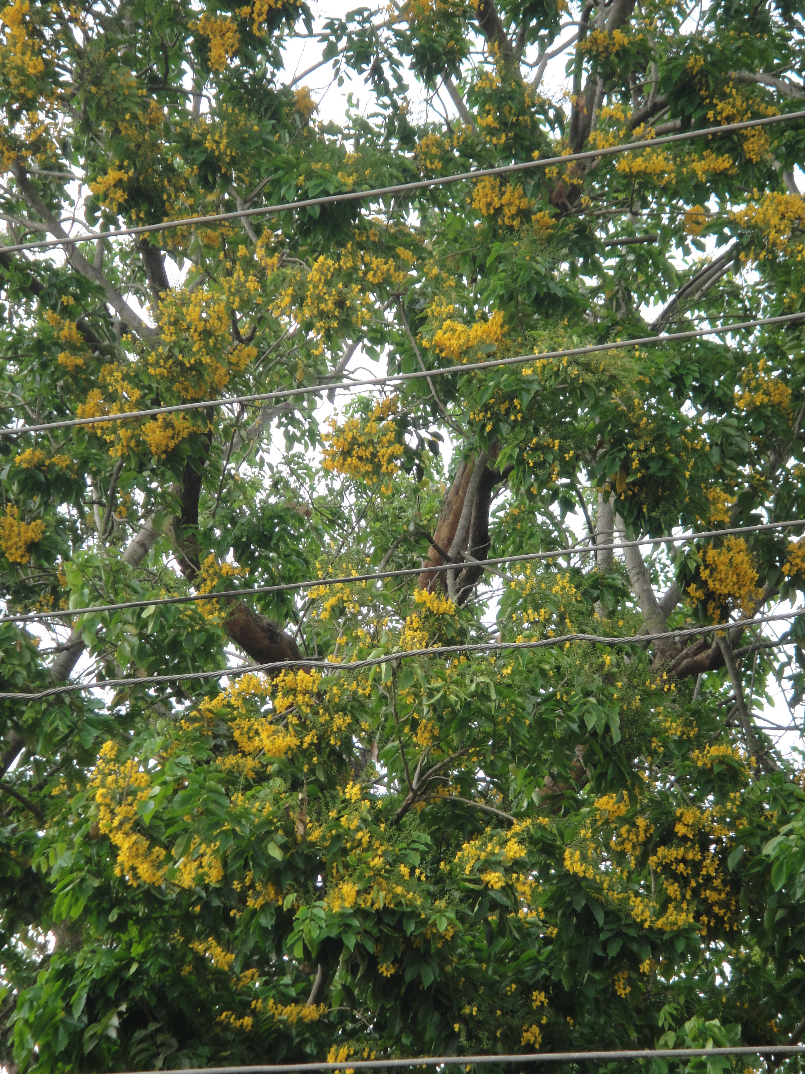 Burmese Padauk usually flower during Thingyan.